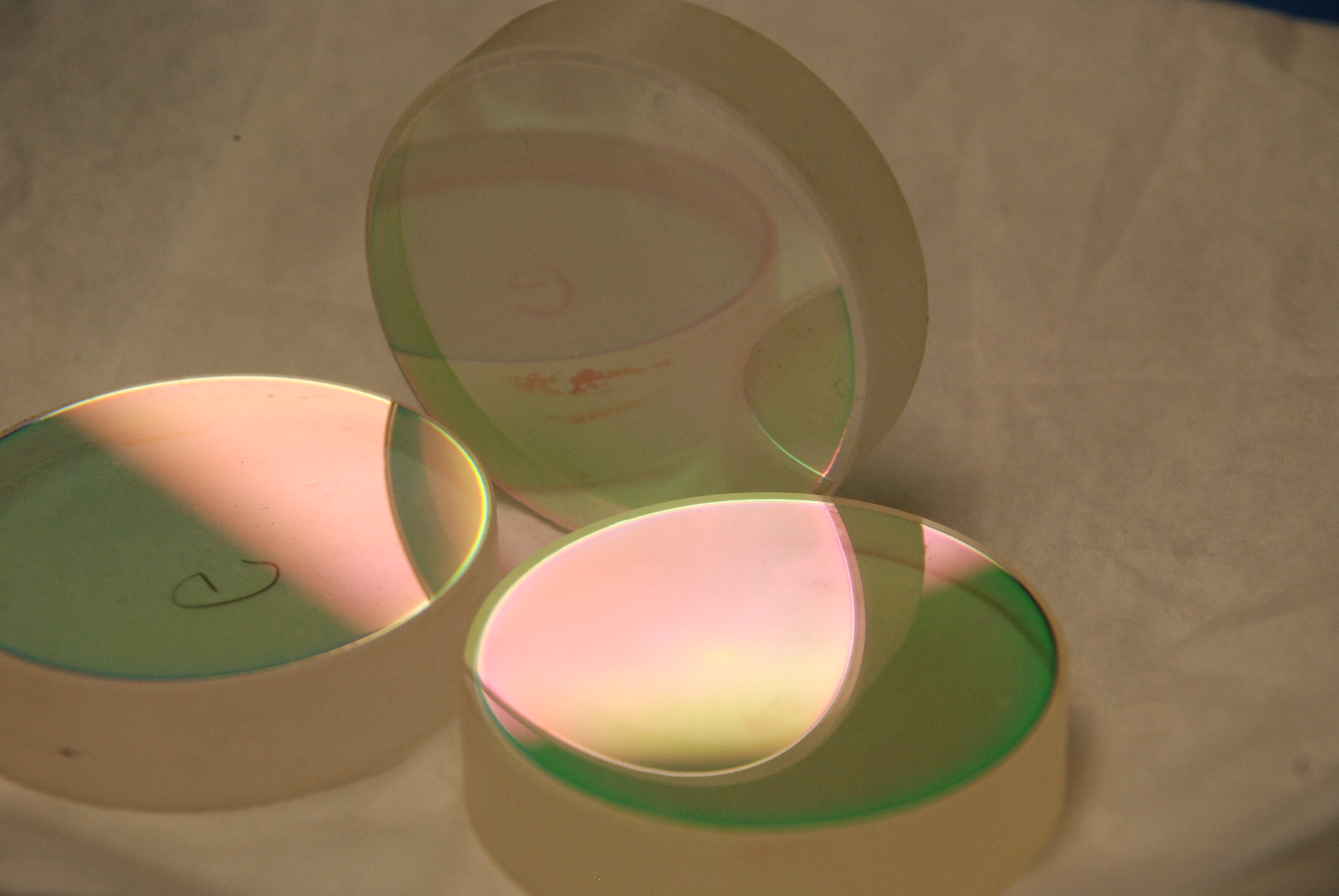 Dielectric mirror used for cold atoms experiments.